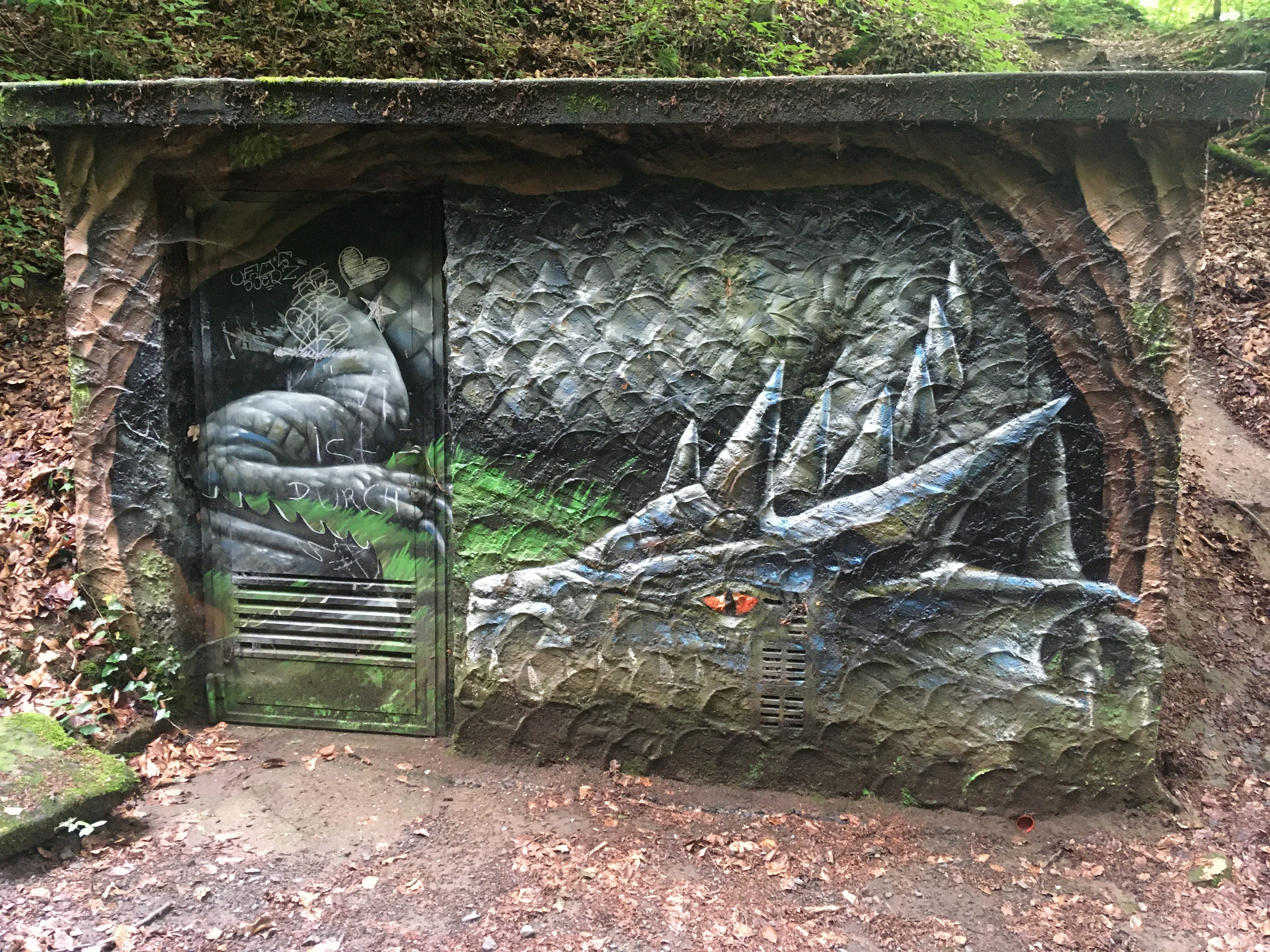 Professional graffiti in the nightingale valley